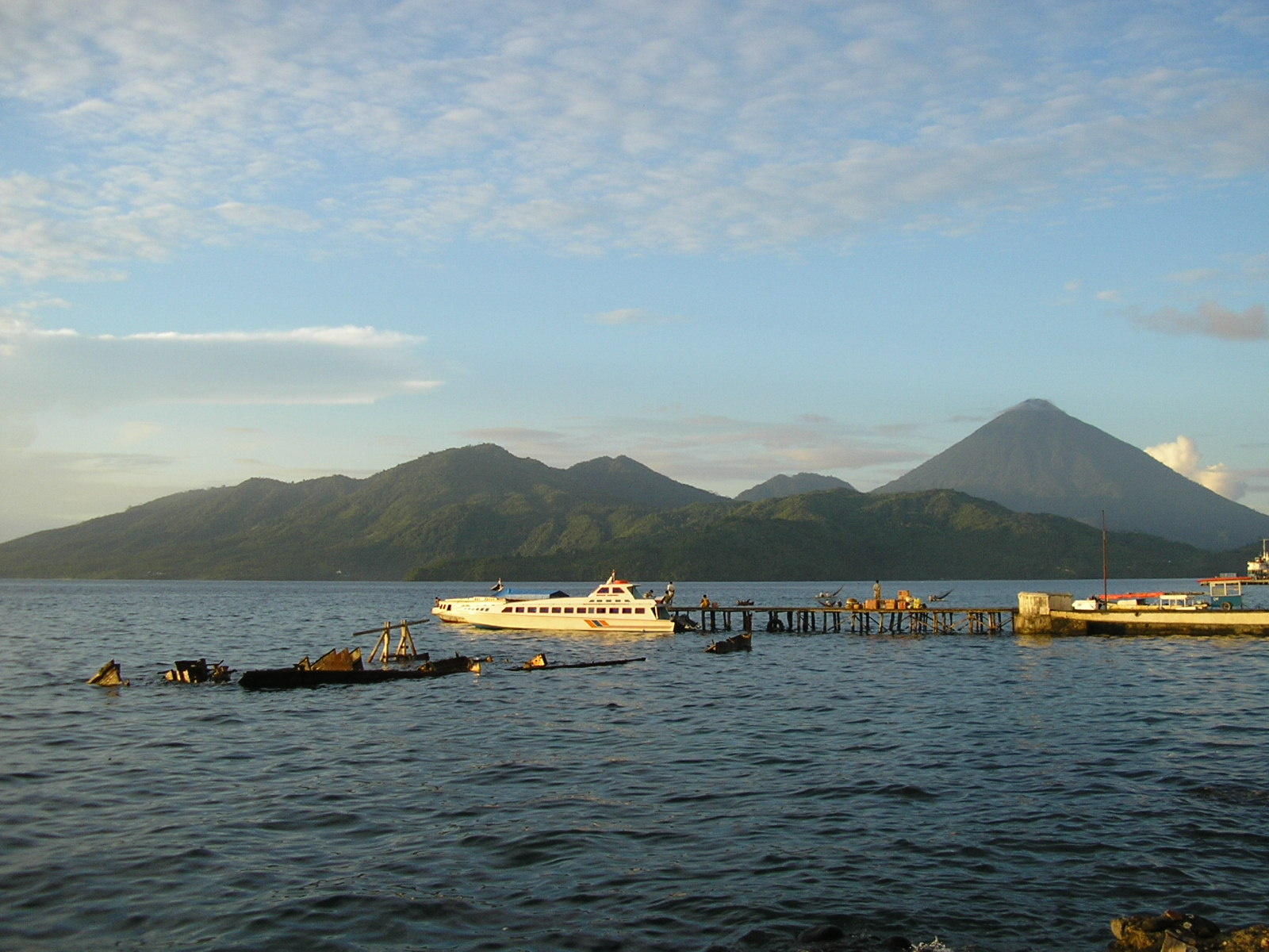 Tidore Island, taken from Ternate Island (Indonesia)